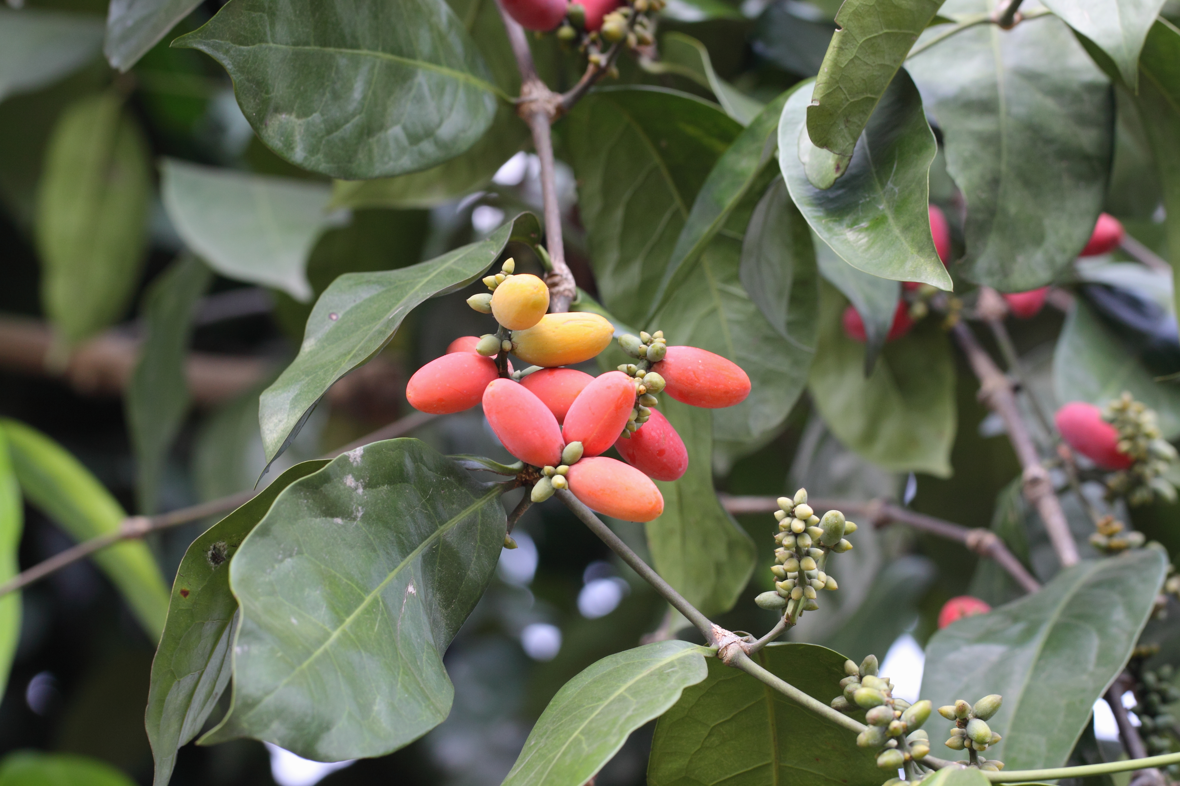 This strange fruit is a relative of Ginko and pine. It is the base of Sayur Asem, a trad. sour soup of Indonesia Kingdom: Plantae Division: Gnetophyta Class: Gnetopsida Order: Gnetales Family: Gnetaceae Genus: Gnetum Gnetum gnemon L. Indonesia, W-Java, 10km S Tangerang: BSD (Kampung), 45m asl, 04.06.2012 IMG_2060